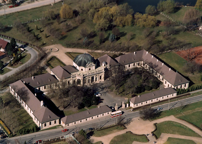 Savoyai palace, Ráckeve, Hungary, Europe